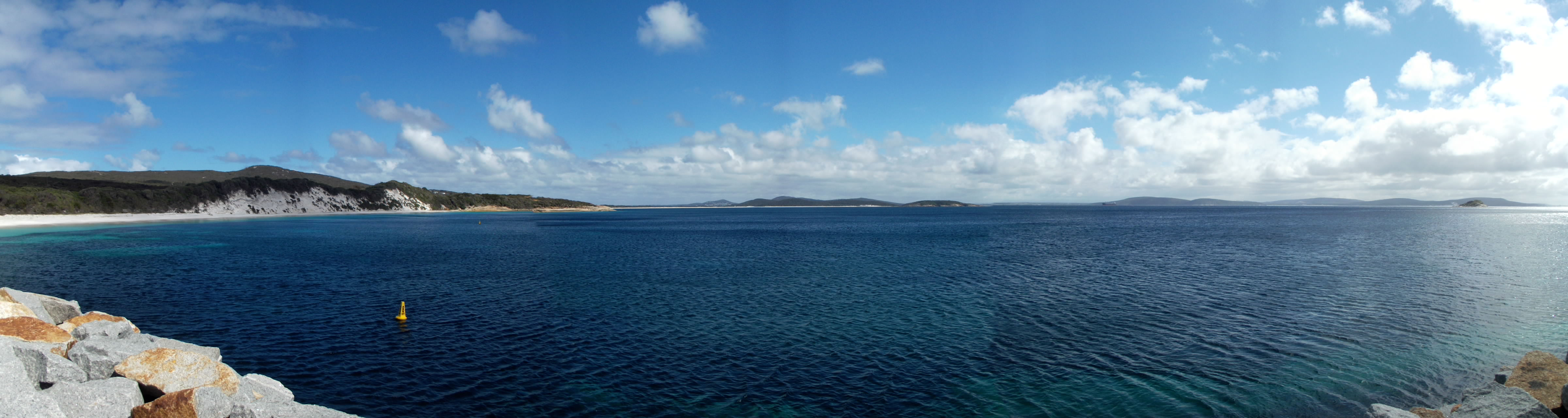 The waters of Frenchman Bay